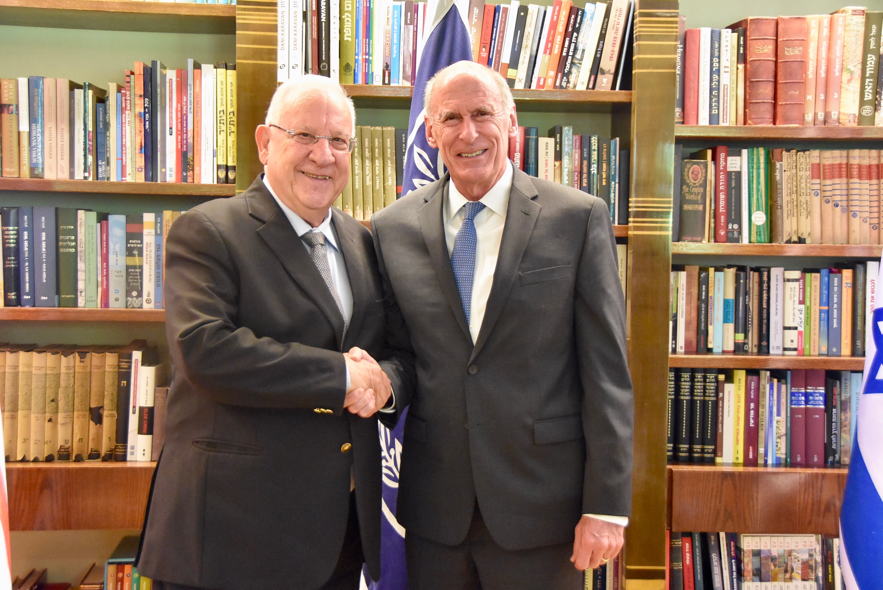 President of the State of Israel, Reuven Rivlin, at a meeting with US National Intelligence Director Dan Coats Sunday, September 3, 2017. Photo credit: Tomer Reichman.